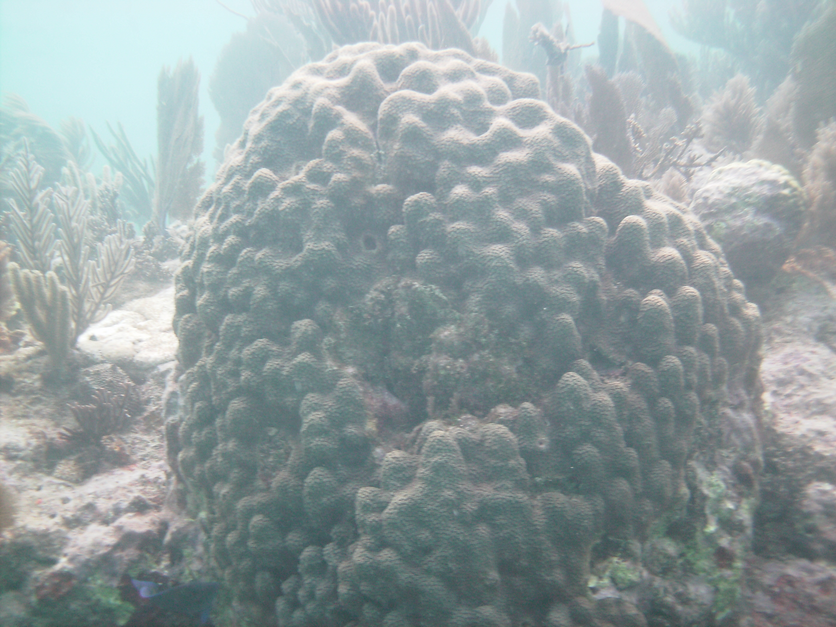 Montastraea annularis at Molasses Reef, John Pennekamp Coral Reef State Park, Florida Keys, taken March 2008